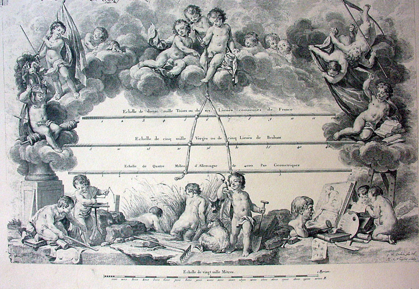 Drawing about scale of maps, detail of and old map of forest of Mormal (almost 10,000 hectare) in the north of France, (by Cassini ?) (1789 ?).